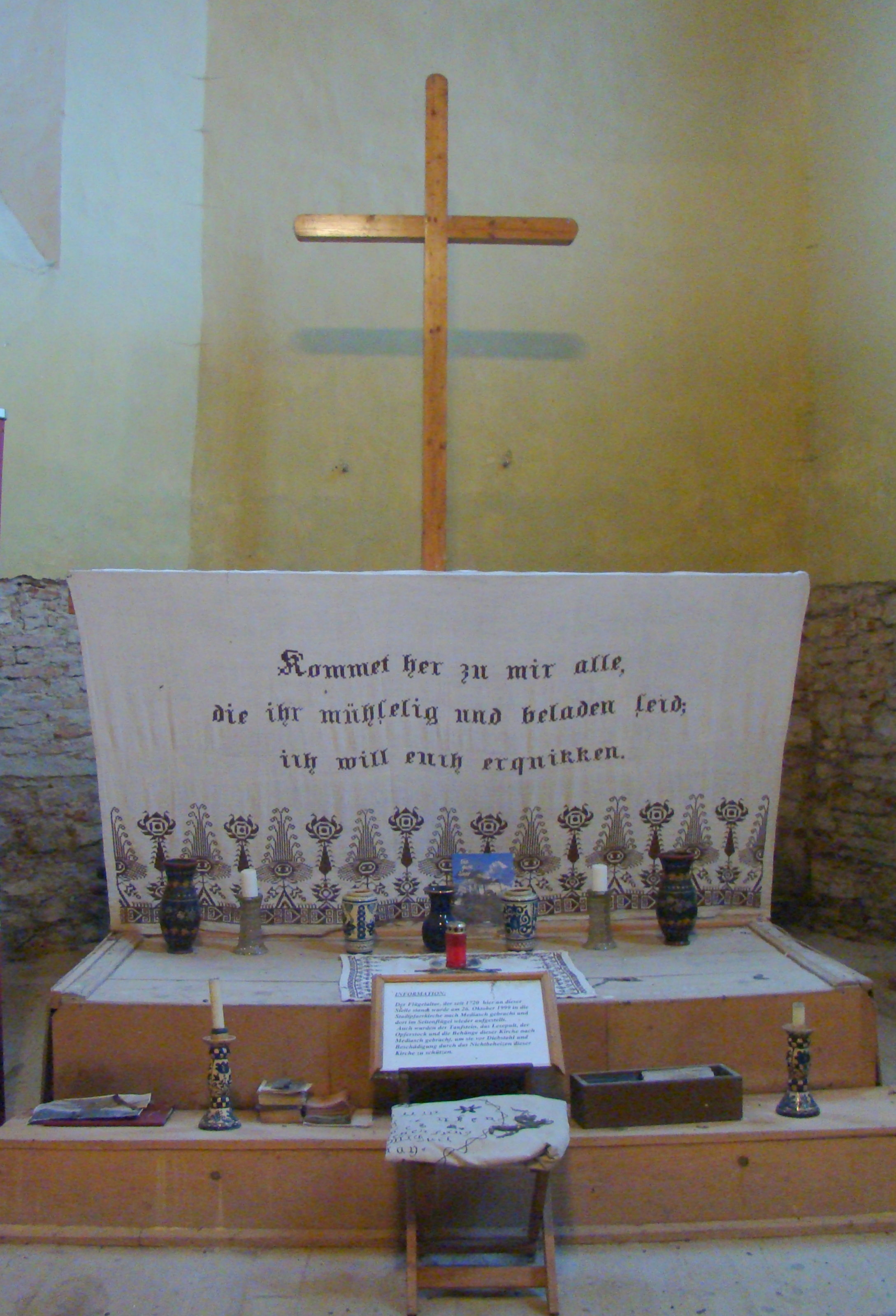 Lutheran church in Dupuș, Sibiu County, Romania